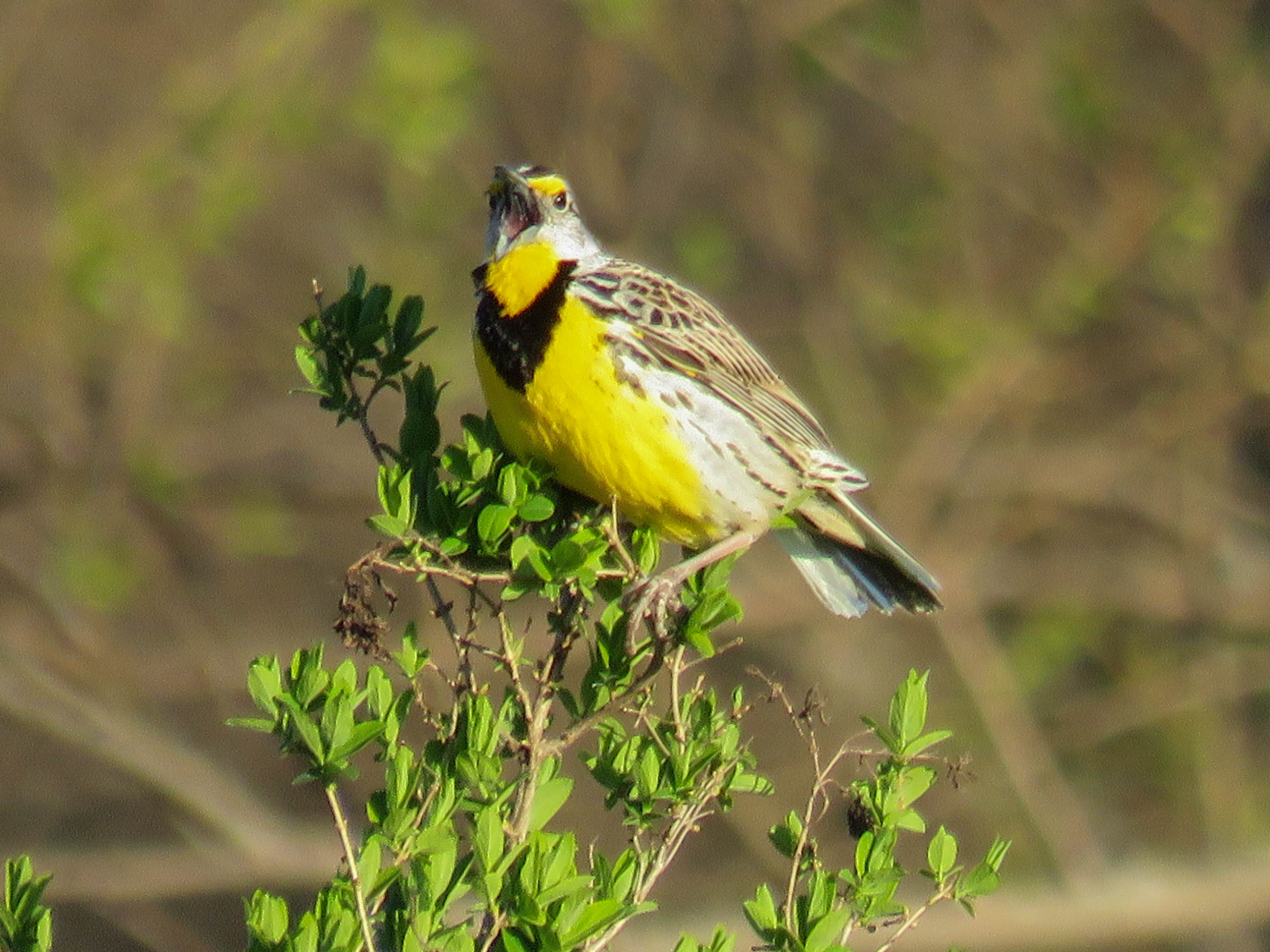 Eastern Meadowlark Sturnella magna, Naperville, DuPage, Chicago